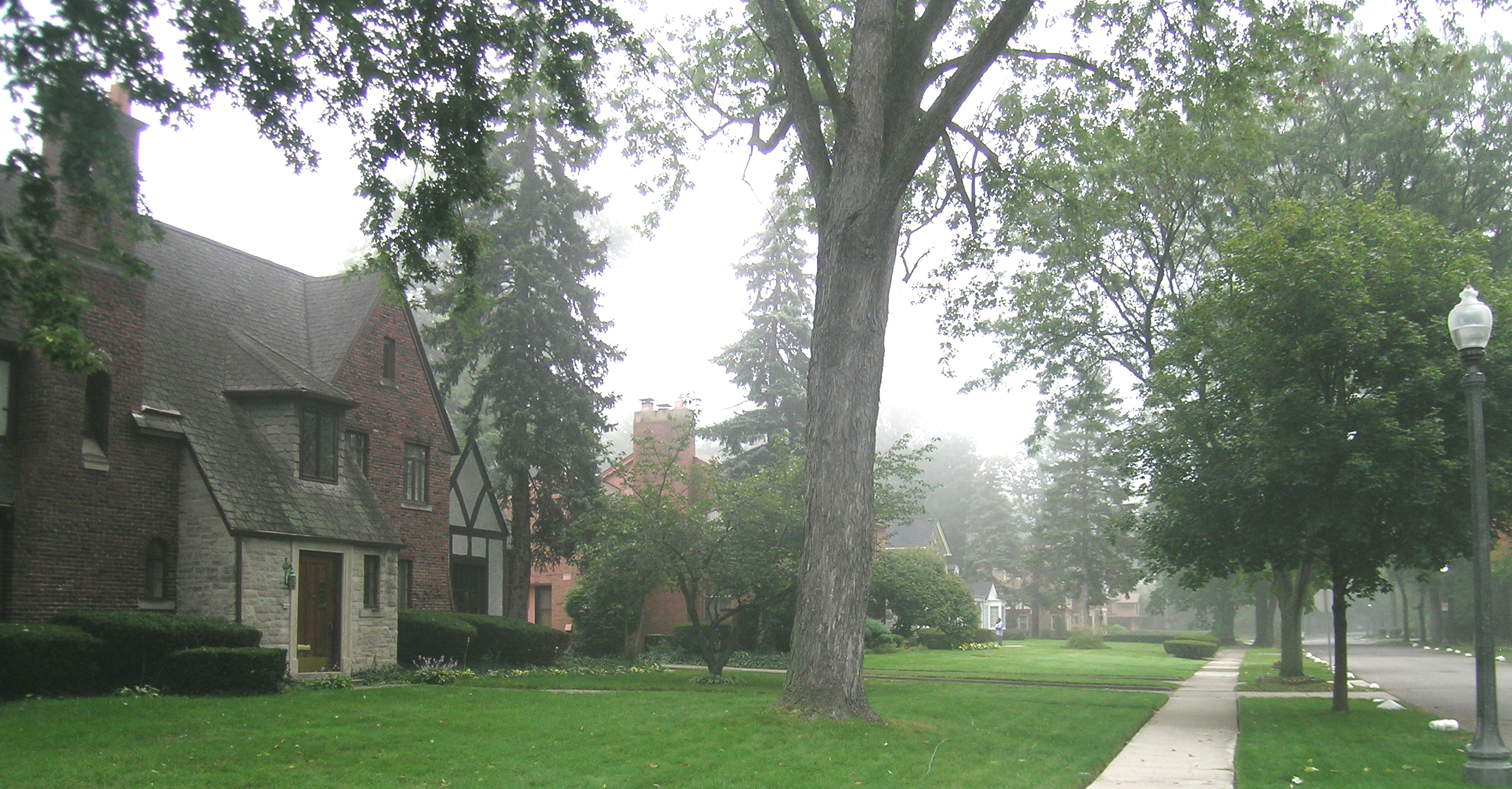 Palmer Woods Historic District streetscape along Strathcona Drive — in Midtown Detroit, Michigan. Historic district contributing properties.